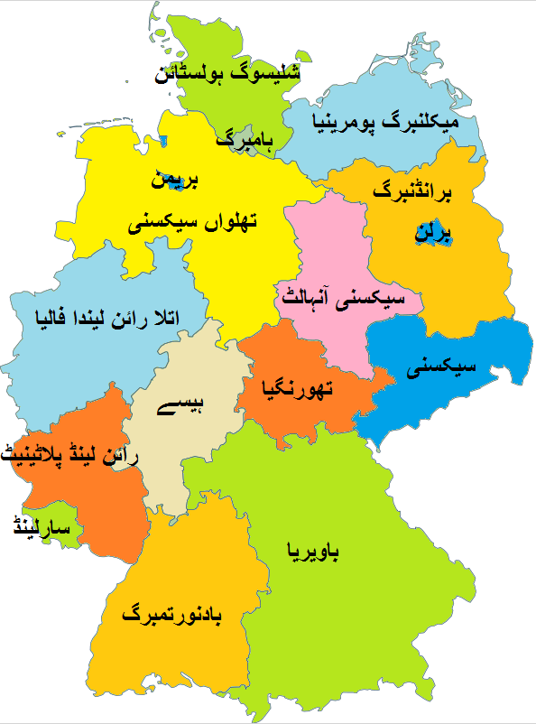 German Provinces in Punjabi language/جرمن صوبے